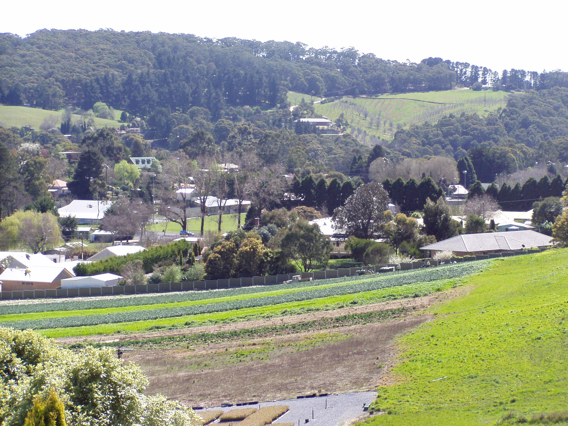 View of Uraidla township from the south. Taken 7th September 2005.